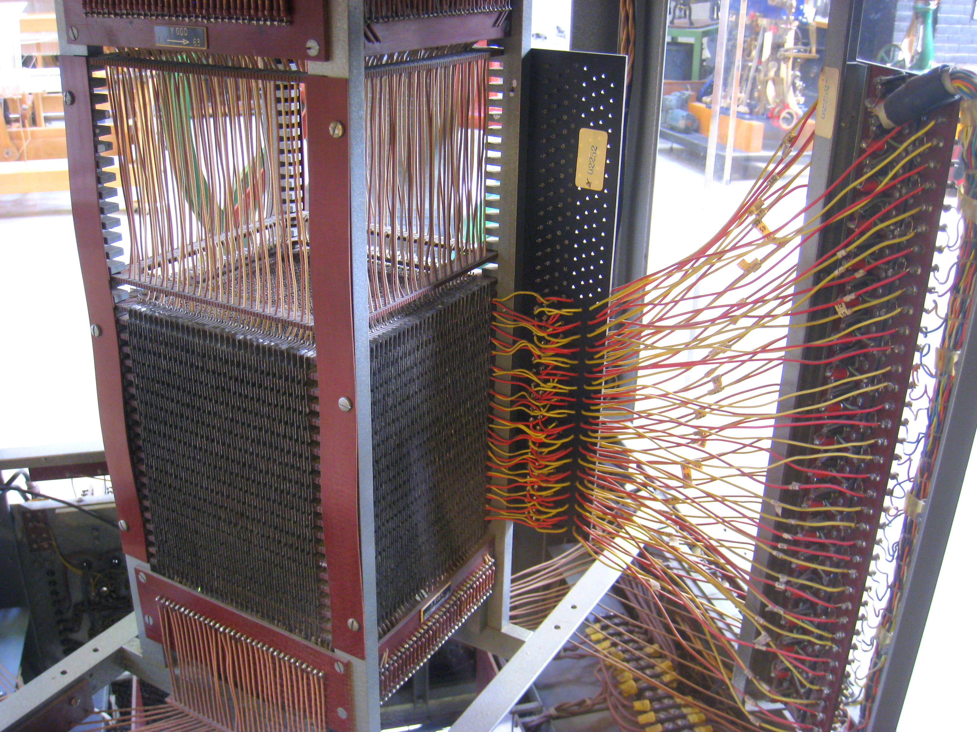 Project Whirlwind - core memory, circa 1951, developed at MIT Lincoln Laboratory, Massachusetts, USA. Museum sign describes capacity as 2Kb; I do not know if this means kilobytes or kilobits, and word size is not describe. Load rate was 40,000 instructions / second. In Charles River Museum of Industry, Waltham, Massachusetts, USA, on loan from the MIT Museum. hey man, art says a single plane held 32 x 32 = 1024 cores ie bits, thatd req ab 16 planes to hold 2k bytes, pic looks like having just that many ;)